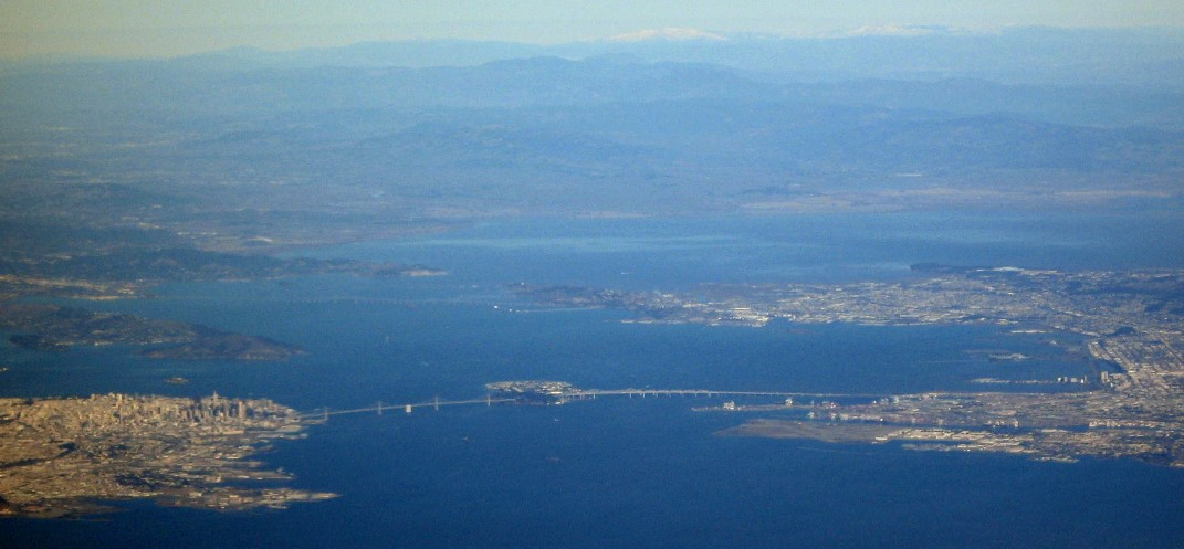 The San Francisco-Oakland Bay Bridge taken from the air, looking north. San Francisco is on the left, and Oakland is on the right. Taken by the uploader User:SamuelWantman.